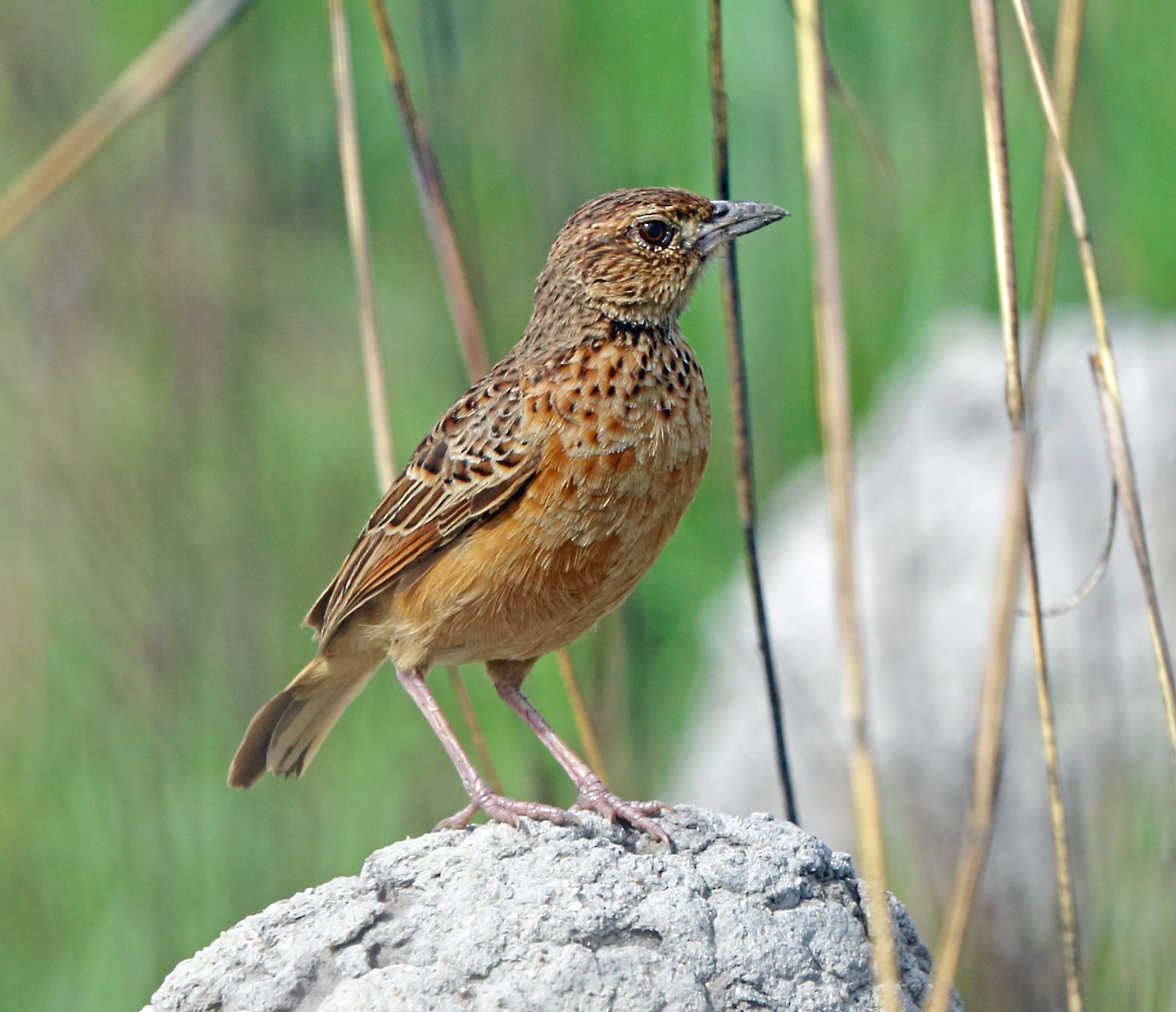 Flappet lark at Sakania in southern DR Congo